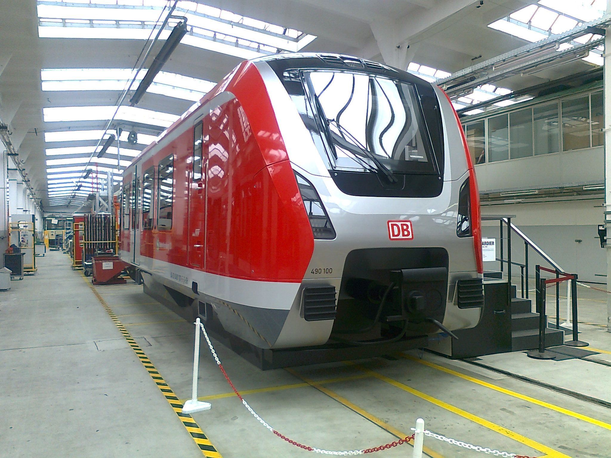 Mock-up der neuen DB- Baureihe 490 der S- Bahn Hamburg Bombardier